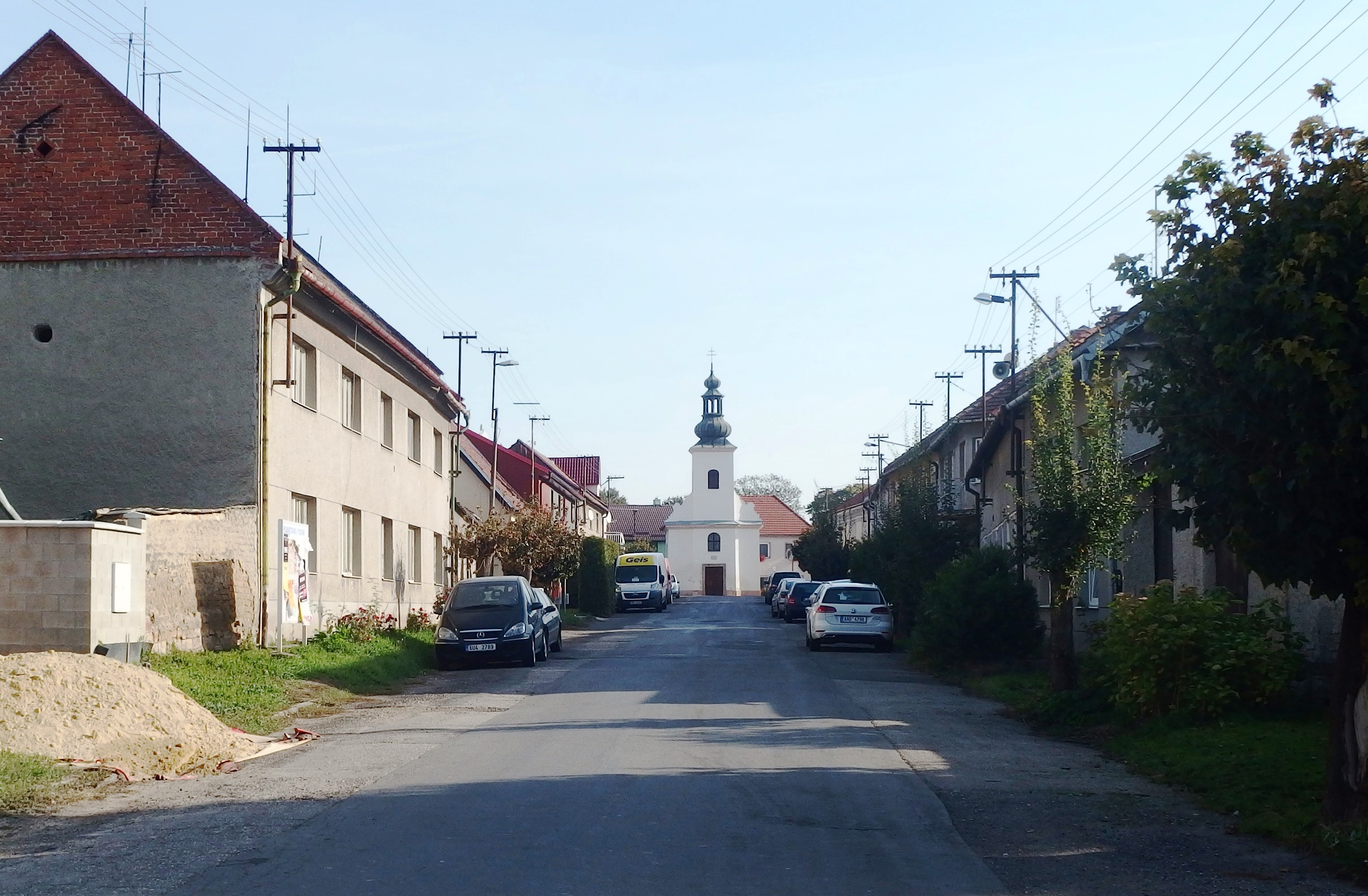 Bystročice, Olomouc District, Czech Republic, part Žerůvky.